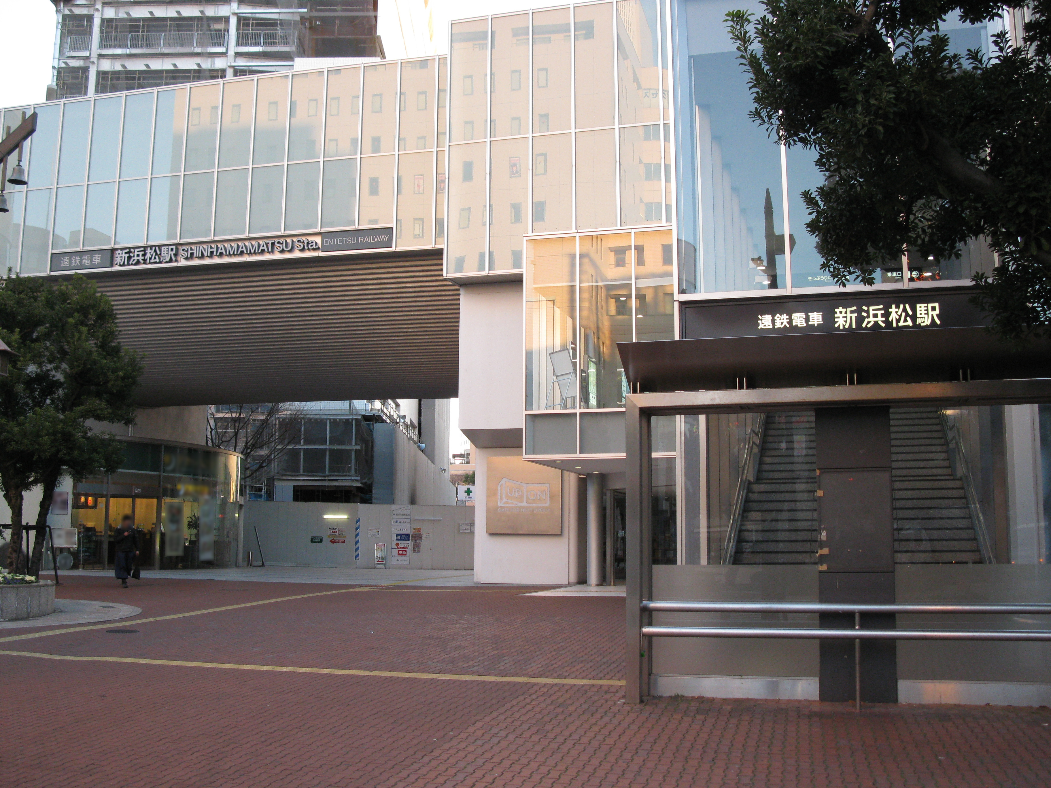 Shin-Hamamatsu Station building (Enshū Railway Line)